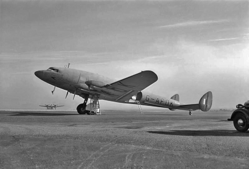 De Havilland DH.91 Albatross (G-AFDK), BOAC, Bristol (Whitchurch)